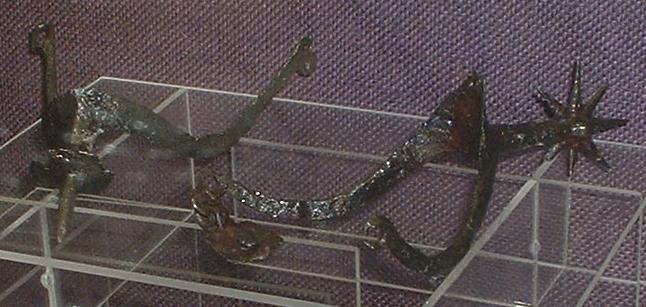 An iron prick-spur found at Stowell, 13th-14th century An iron spur with eight pointed rowel found at Worle, Weston-Super-Mare, 15th century. Photograph was taken in the Somerset County Museum in Taunton on 29-Oct-05.